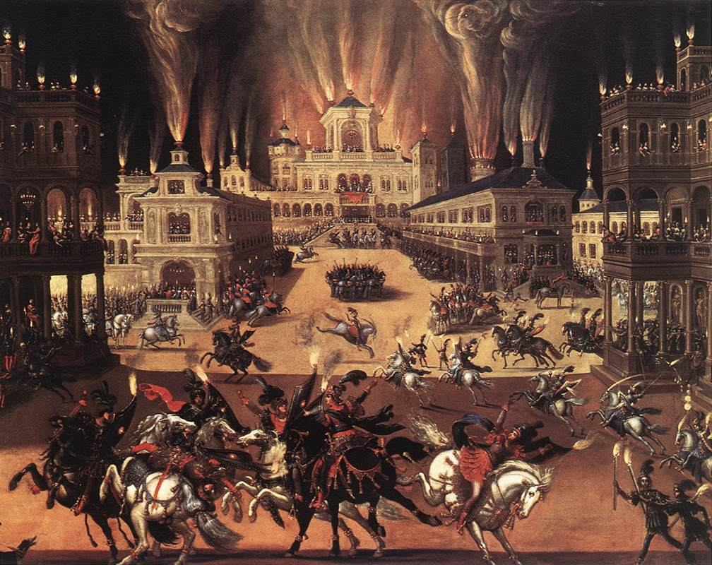 Part of the four Elements (Air, Earth, Fire and Water) series by the artist.